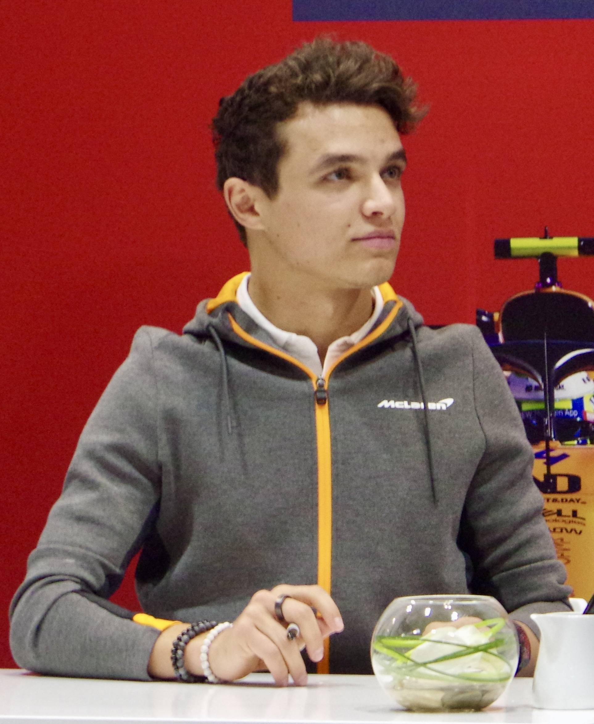 Autosport International Racing Car Show 2020